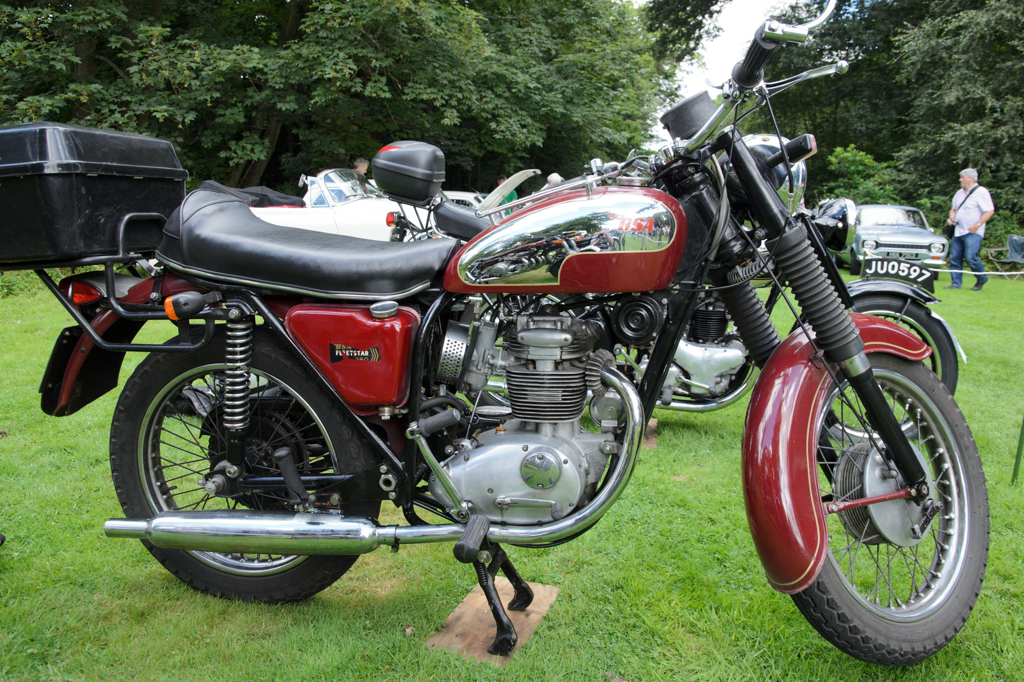 Lytham Hall Classic Car Show 31/07/2016